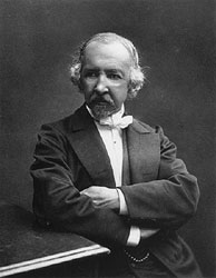 Finnish author Zacharias Topelius (1818-1898)